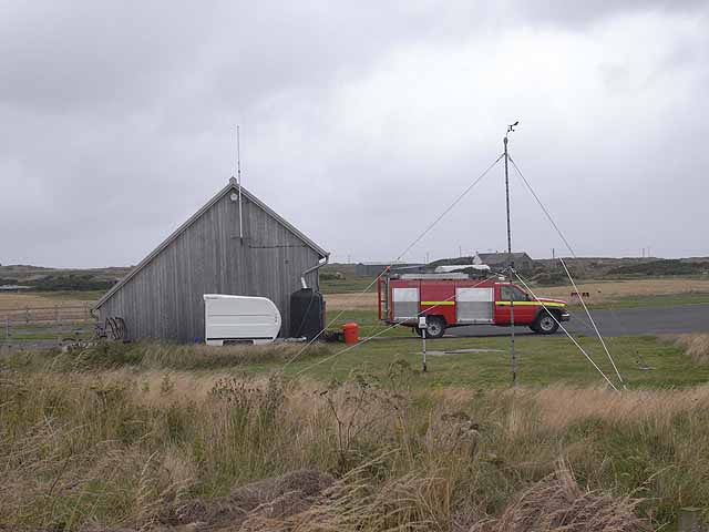 Heathrow it ain't! Although I think there has been a landing strip at Ballard at the western end of the Isle of Coll for some time, it has only been upgraded to a full-blown airport with a tarmac runway in the last year. The terminal building was officially opened in September 2008. There are currently four departures a week - two direct to Oban, and two to Oban via Tiree, operated by Highland Airways.